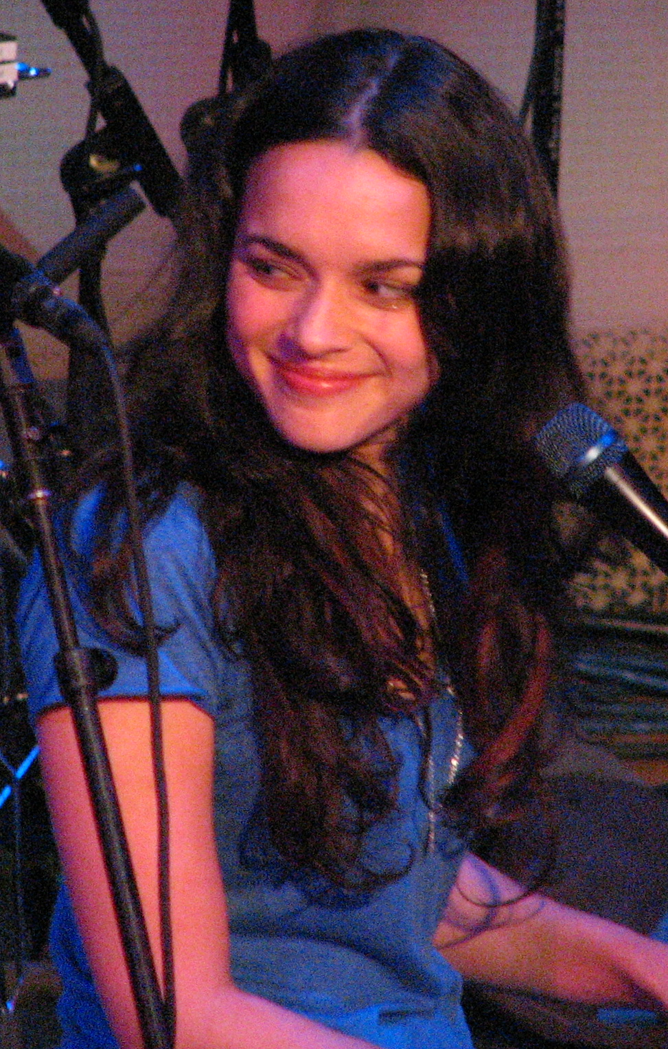 Norah Jones at Bright Eyes at Town Hall 29 May 2007